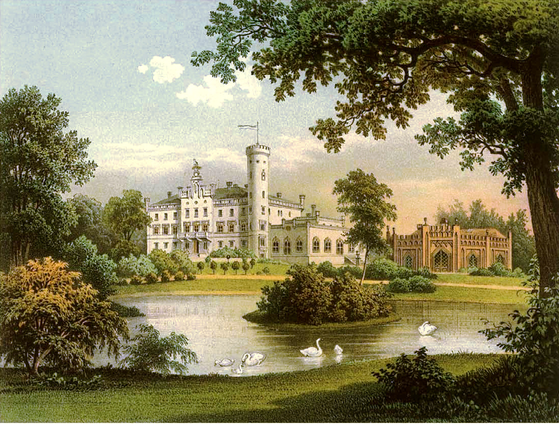 Castle in Rokitki